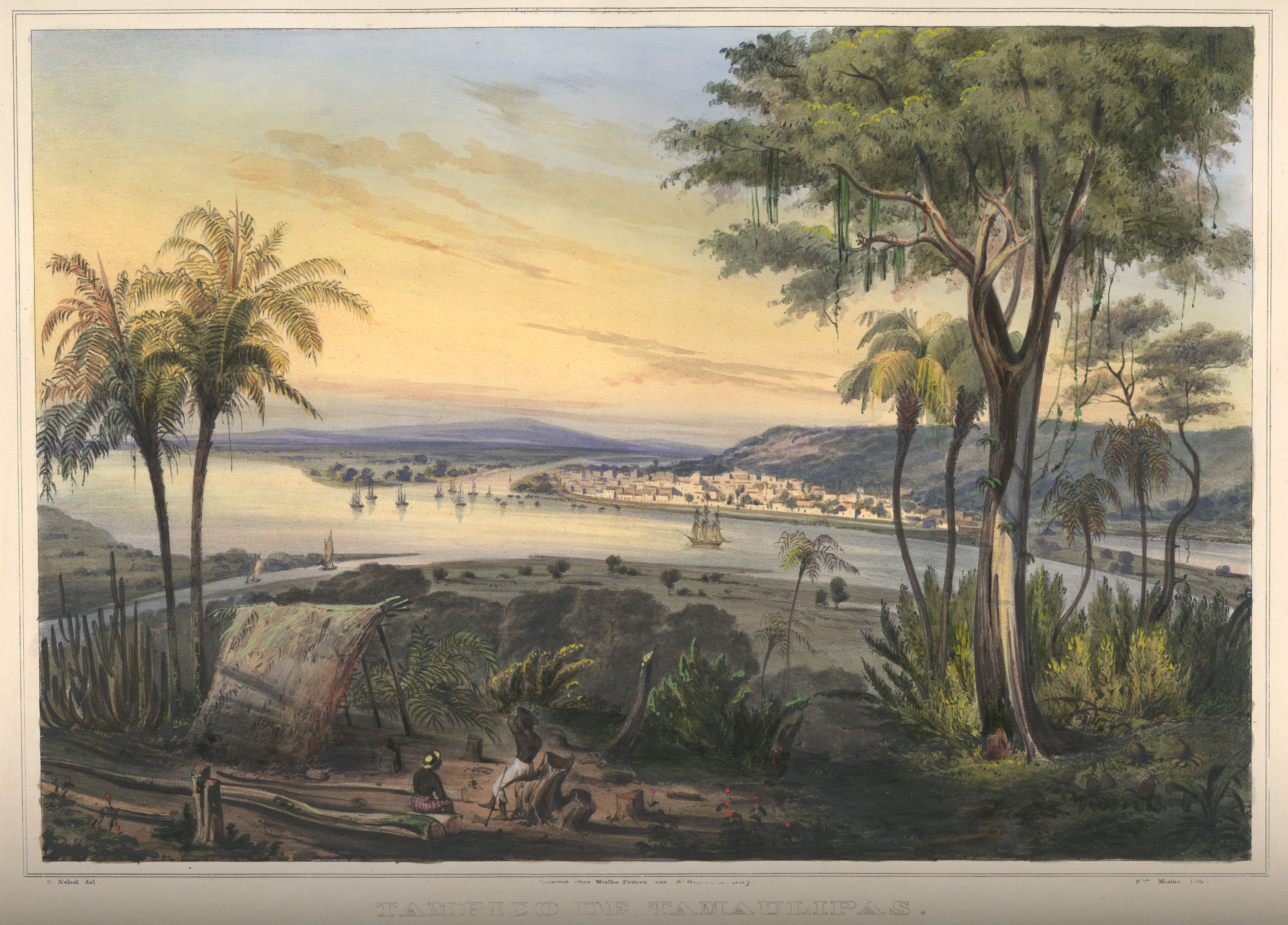 View of Tampico, Tamaulipas. Hand-colored lithograph highlighted with gum arabic. Original size (neat lines): 37.3×26.1 cm.